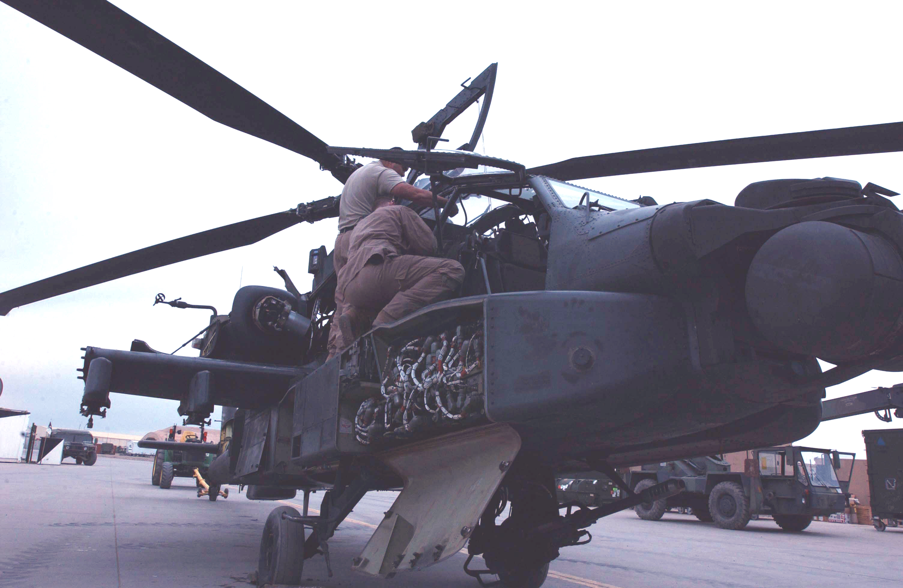 Two Mechanics with D Company, 3rd Battalion, 101st Aviation Regiment, 159th Combat Aviation Brigade repair an AH-64 Apache Helicopter. Mechanics repair various helicopters to ensure they are mission capable. (U.S. Army photo by Spc. James P. Hunter, 49th PAD (ABN), 82nd ABN DIV)